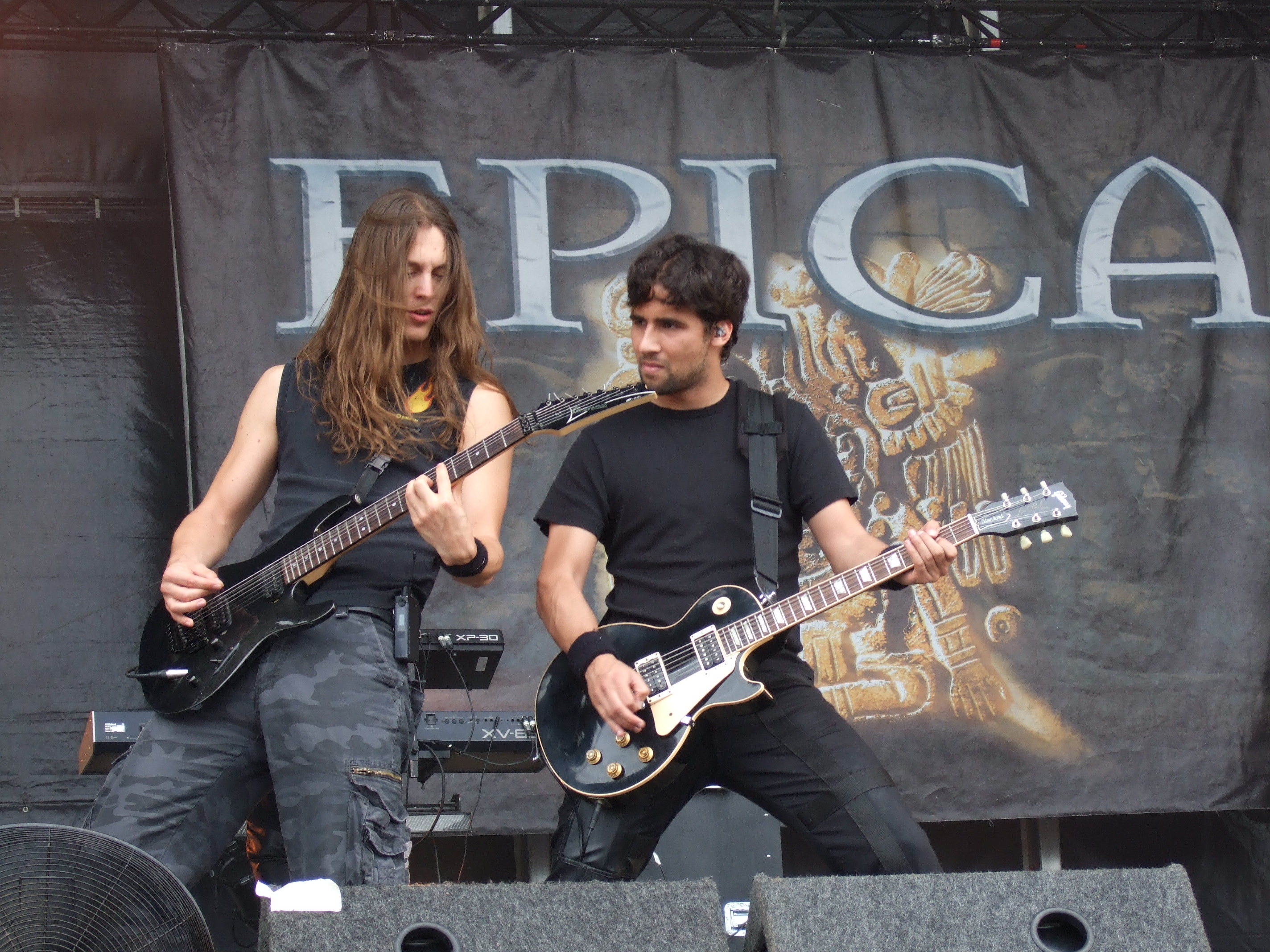 Epica at Hellfest Summer Open Air 2007.